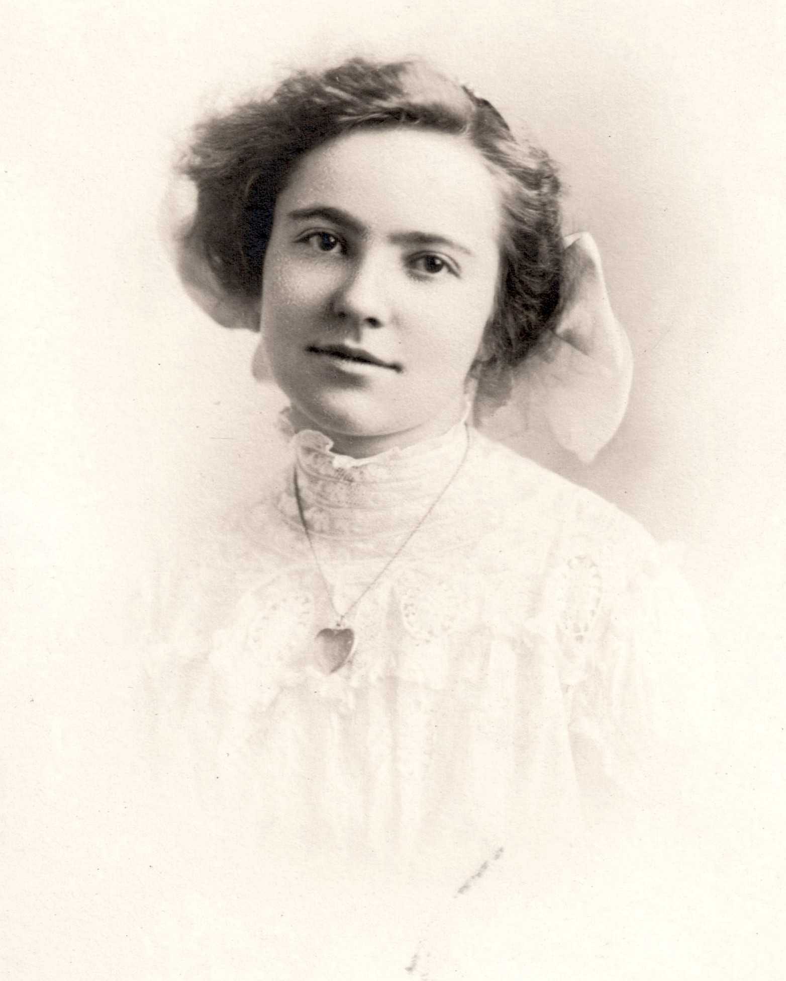 Photo of Pauline Alderman, musicologist, in 1911